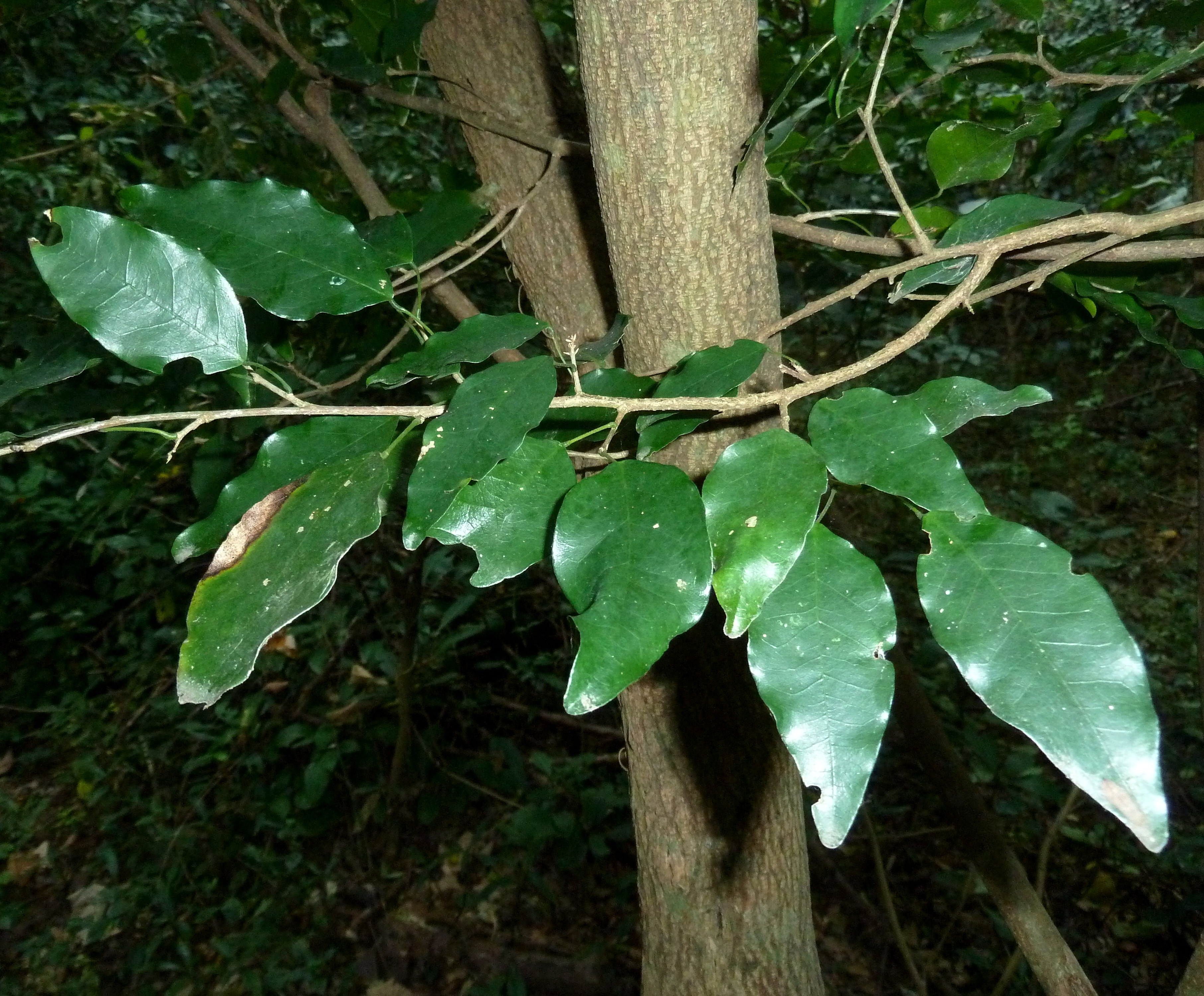 Foliage and bark of a Natal camwood in the Umhlanga Lagoon Nature Reserve, KwaZulu-Natal